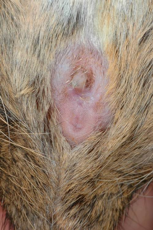 Female genitalia of Octodon degus